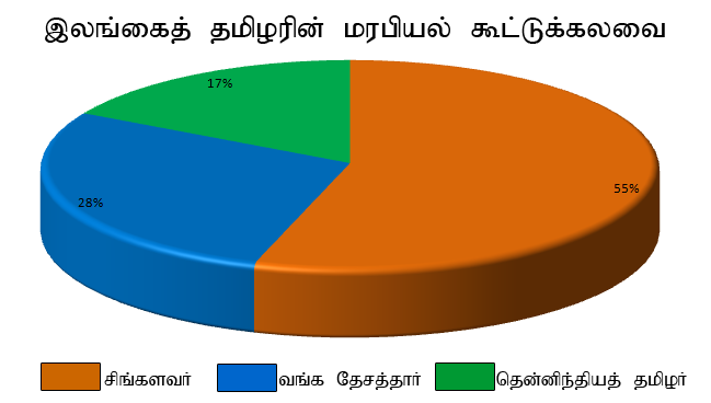 Sri Lankan Tamil Genetic Admixture